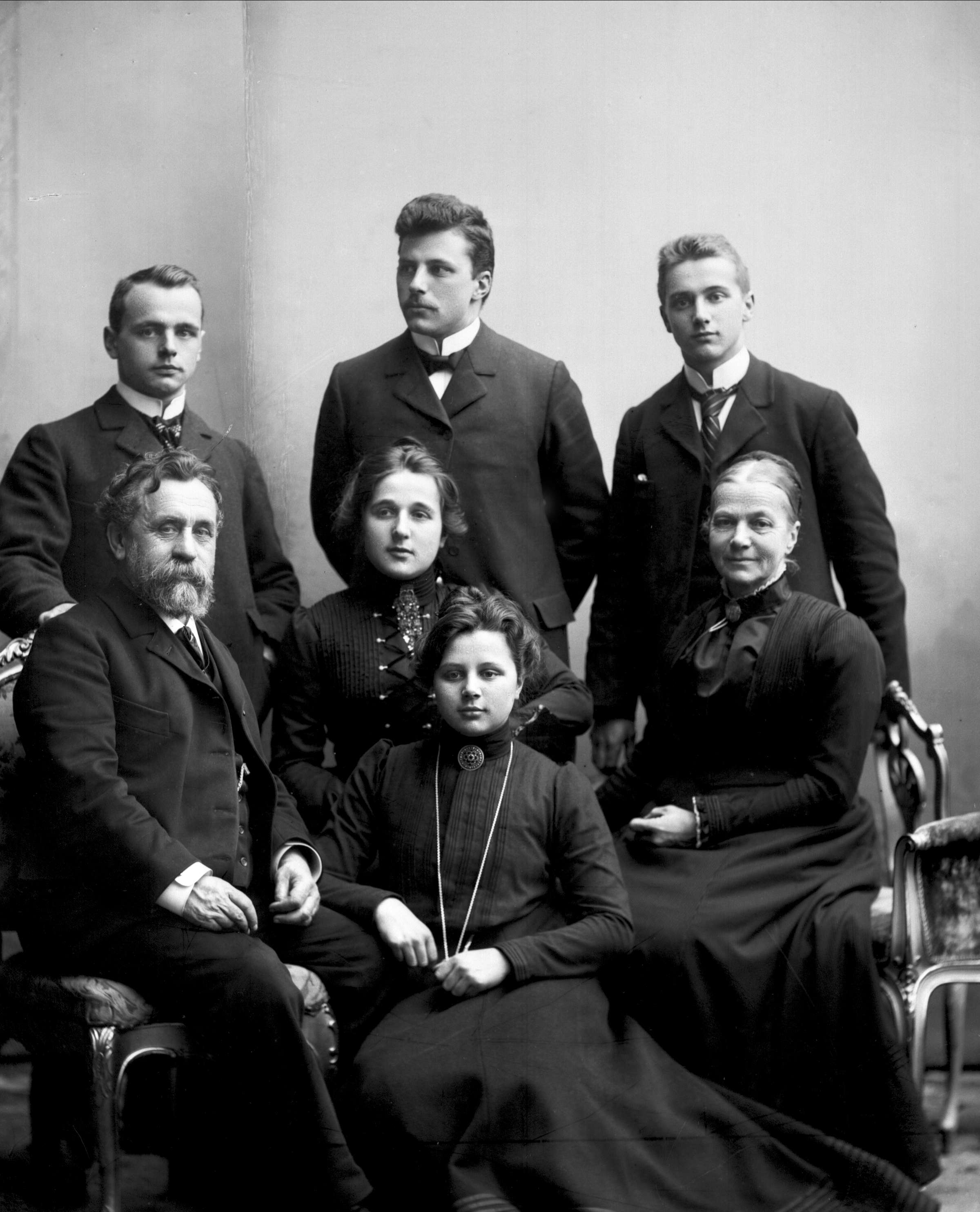 Theologian Bernhard Pauss (1839–1907) and family (wife Henriette Pauss, sons (from left to right) engineer and industrial leader Augustin Paus, surgeon and President of the Norwegian Red Cross Nikolai Nissen Paus, lawyer and director at the Norwegian Employers' Confederation George Wegner Paus, daughters (from left to right) Henriette Wegner Paus, Karoline Louise Paus)